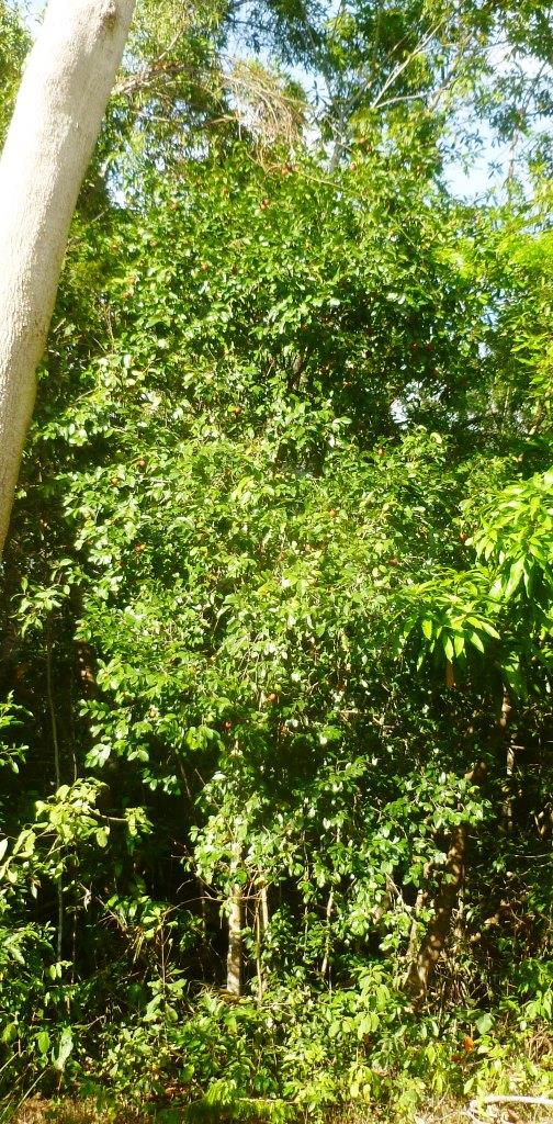 Photo taken near my home outside Cooktown, Queensland, Australia. Nov.2015